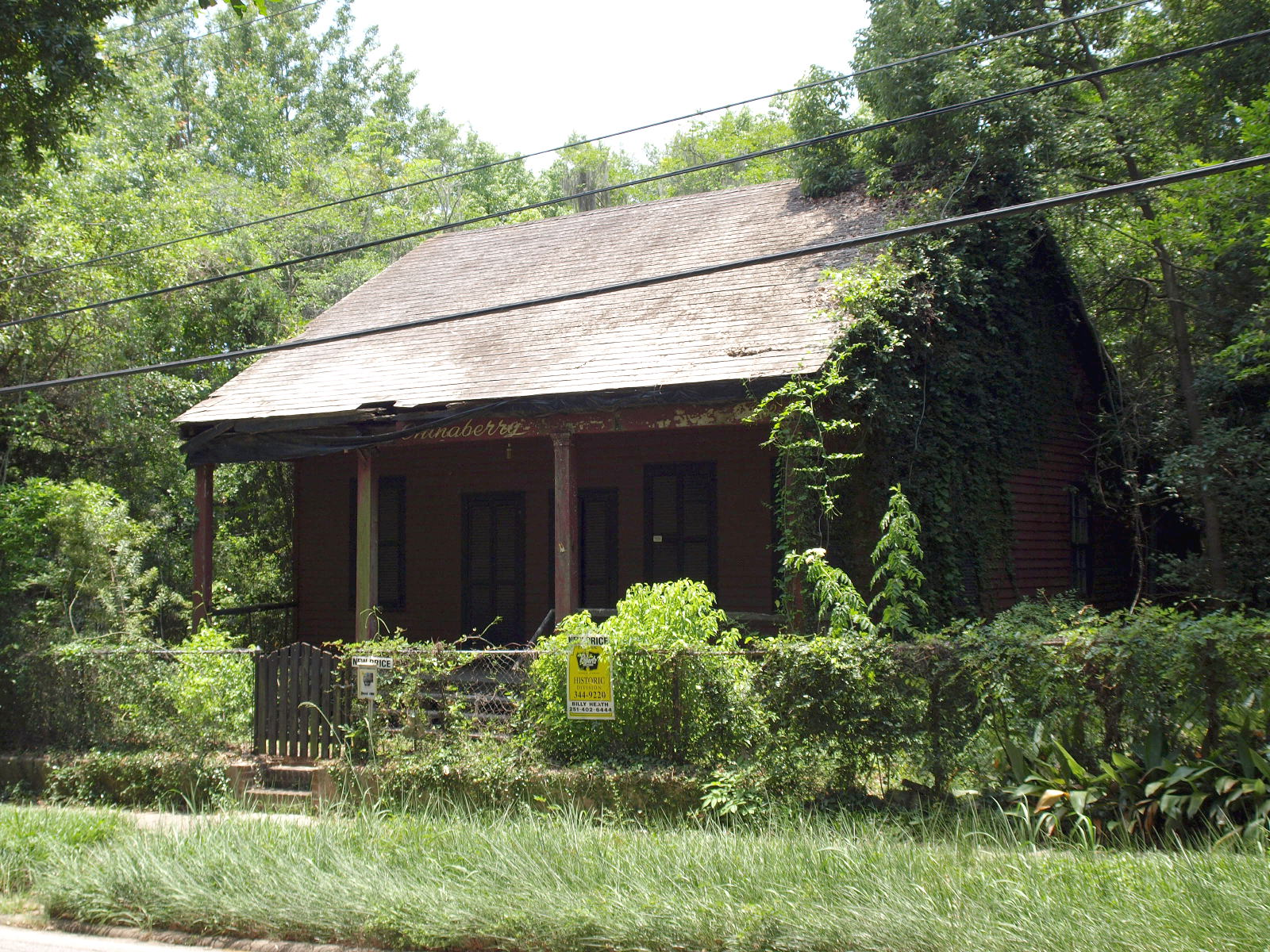 The Pfau-Crichton Cottage (also known as Chinaberry) in Mobile, Alabama, is listed on the National Register of Historic Places